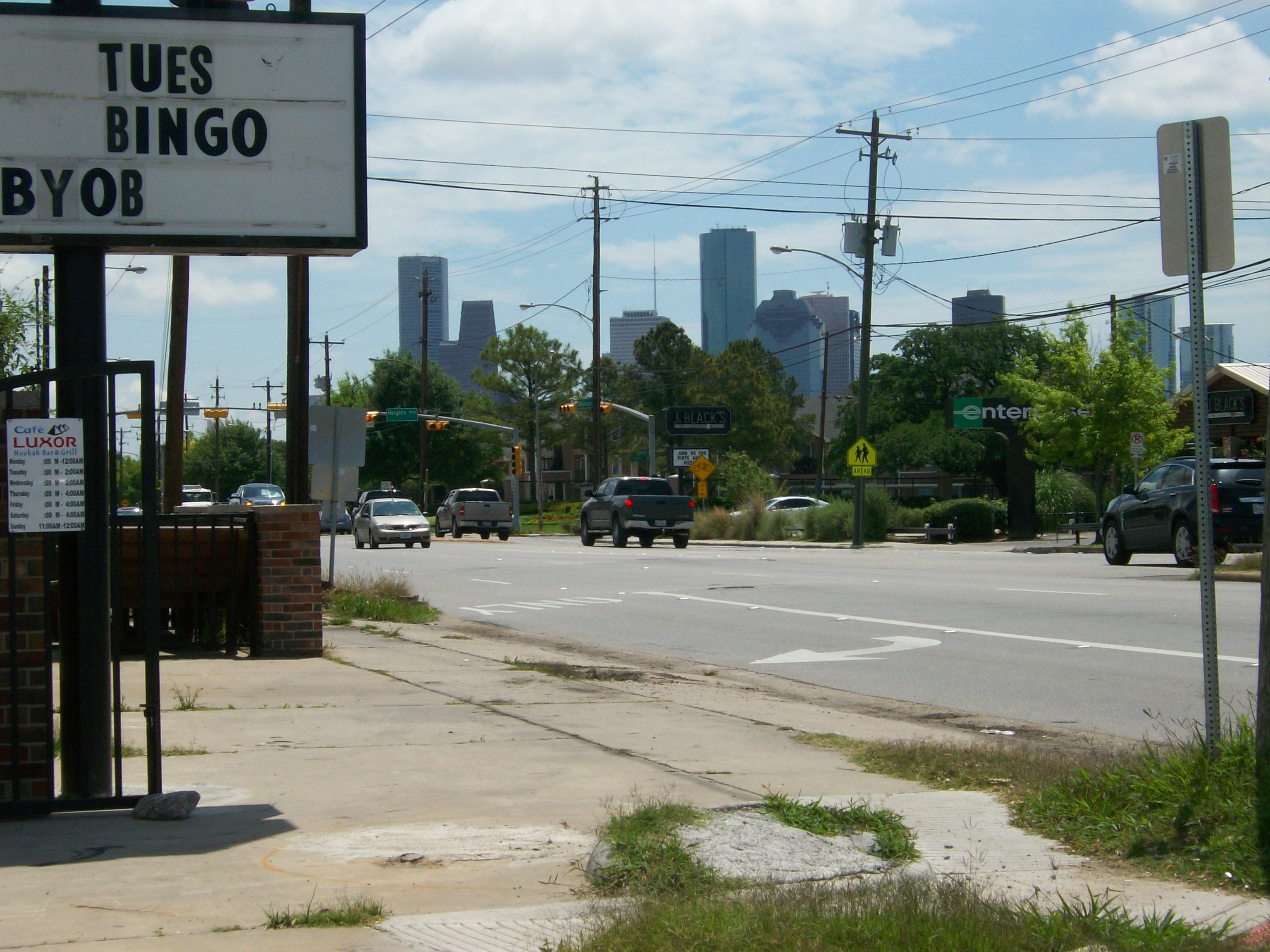 Washington Avenue (Houston, Texas)